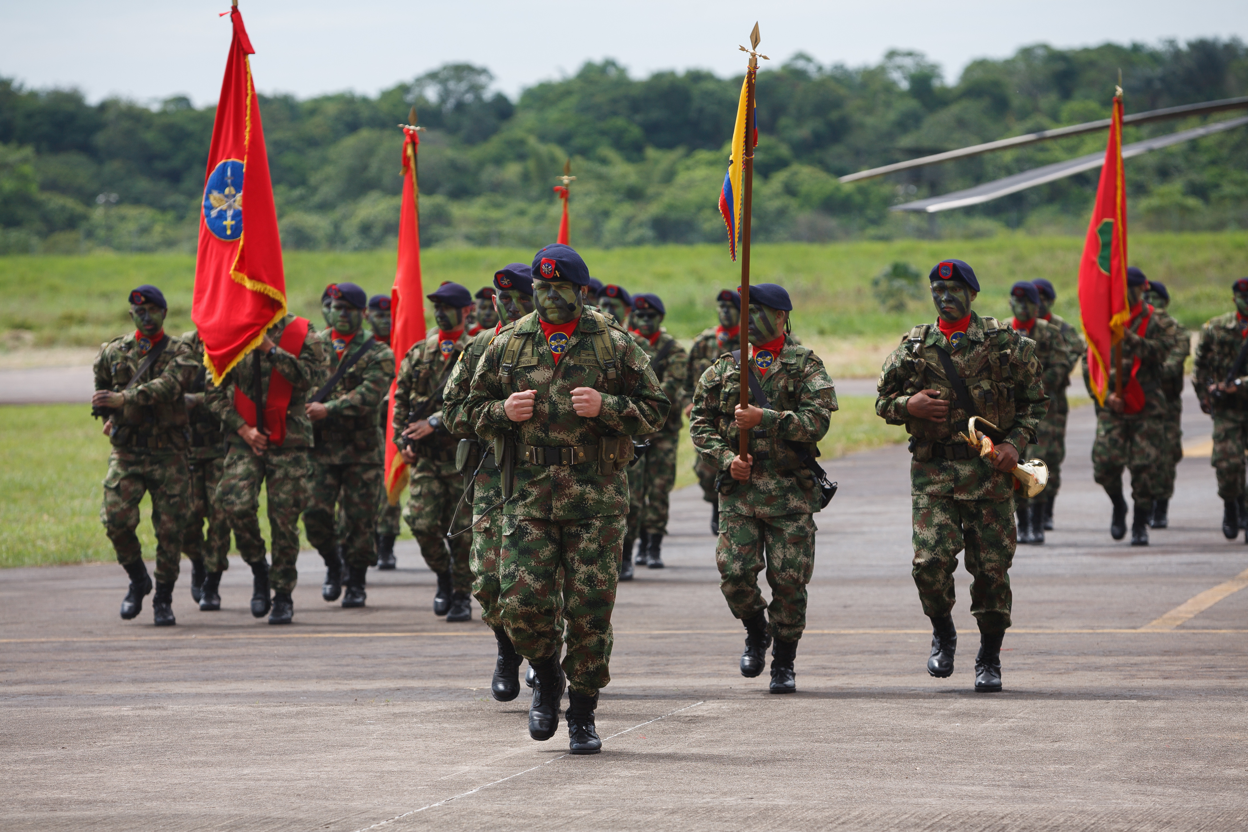 Colombian soldiers with the National Army’s Special Anti-drug Brigade, known as BRCNA in Spanish, hurry to their positions December 7, 2016 during an award ceremony where they honored U.S. Special Forces members in Larandia, Florencia, Colombia. (U.S. Army photo by Staff Sgt. Osvaldo Equite) Unit: Special Operations Command South DVIDS Tags: Green Berets; USSOUTHCOM; SOCSOUTH; Special Operations Command South; U.S. Special Forces; Counter-narcotics; USSOF; 7SFG; 7SFG (A); BRCNA